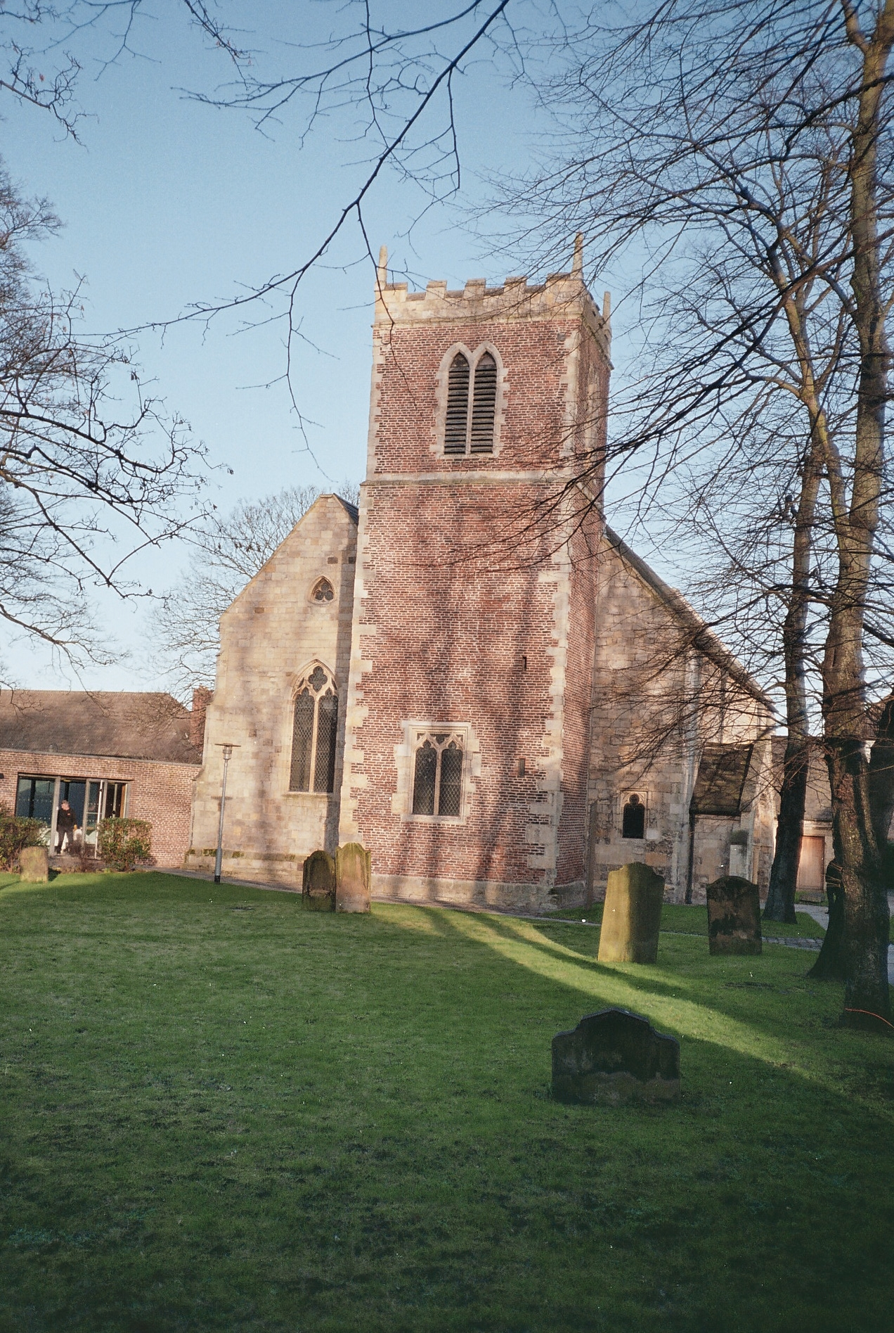 St Margaret's parish church, Walmgate, York, seen from the west